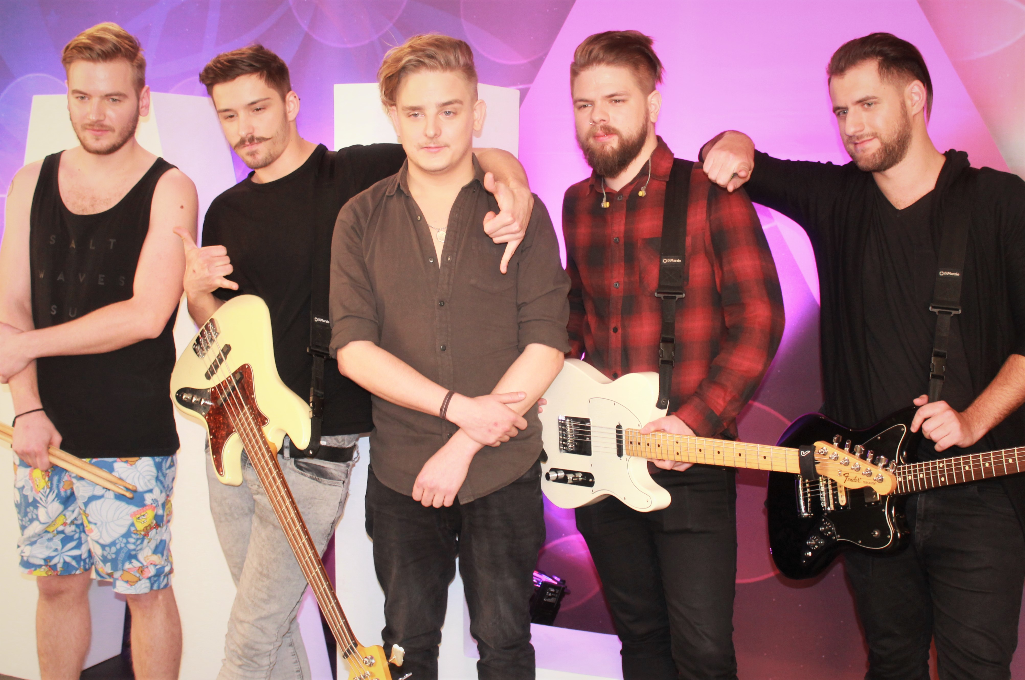 A Dal 2018 participant: AWS